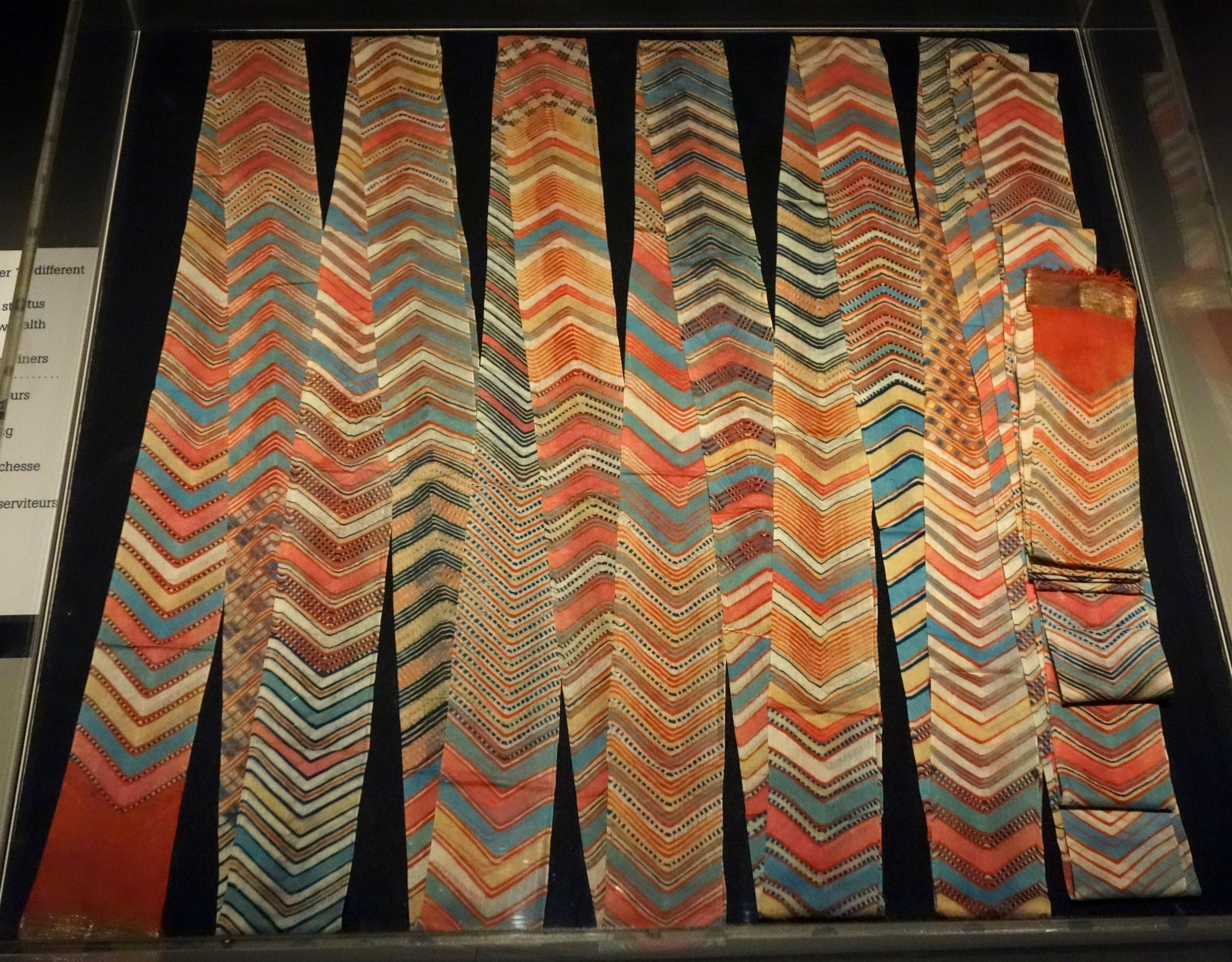 Exhibit in the Royal Ontario Museum, Toronto, Ontario, Canada. This work is old enough so that it is in the public domain.